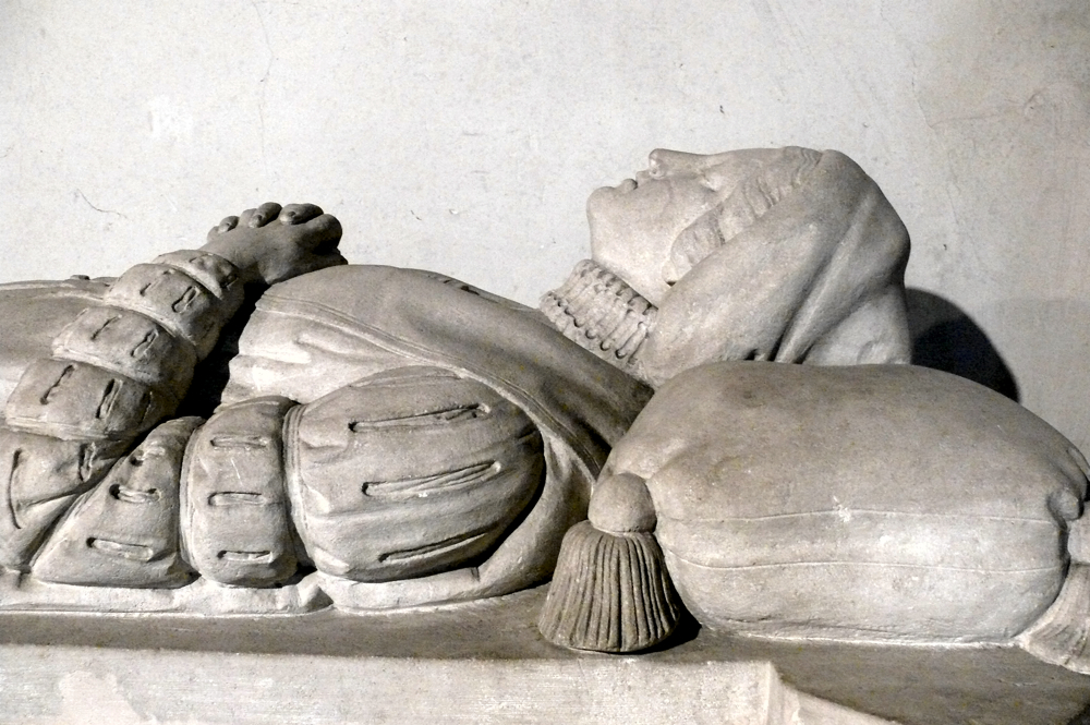 Beatrice of Savoy (1201-1266)